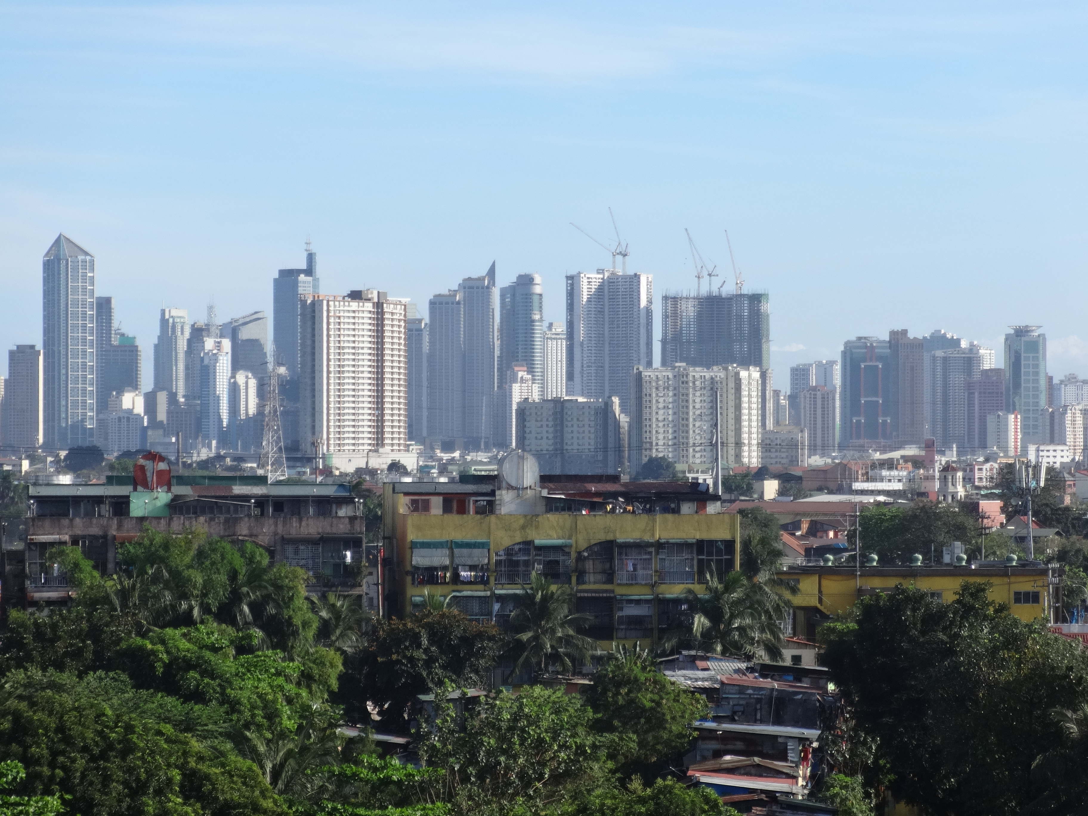 Makati skyline as seen from PUP compound in Santa Mesa, Manila